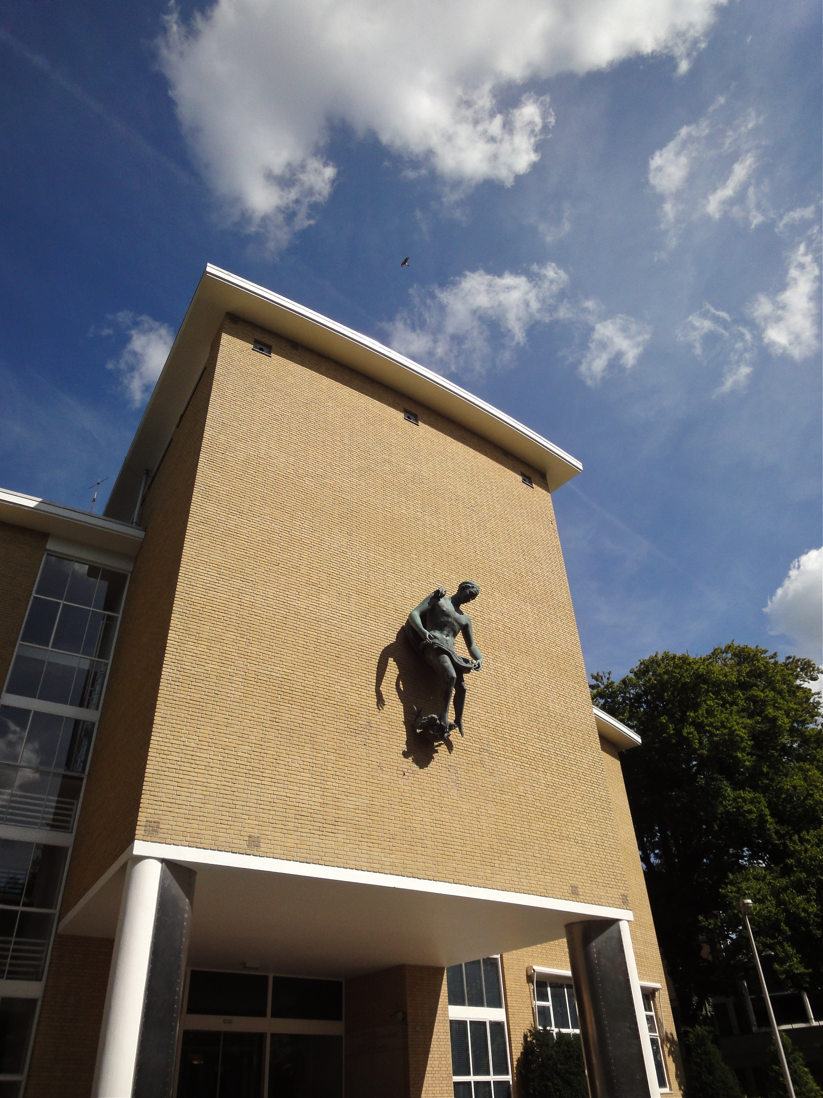 AVRO-studio (Merkelbach/Karsten, 1936) with sculpture De Zaaier (1949) by Pieter Starreveld